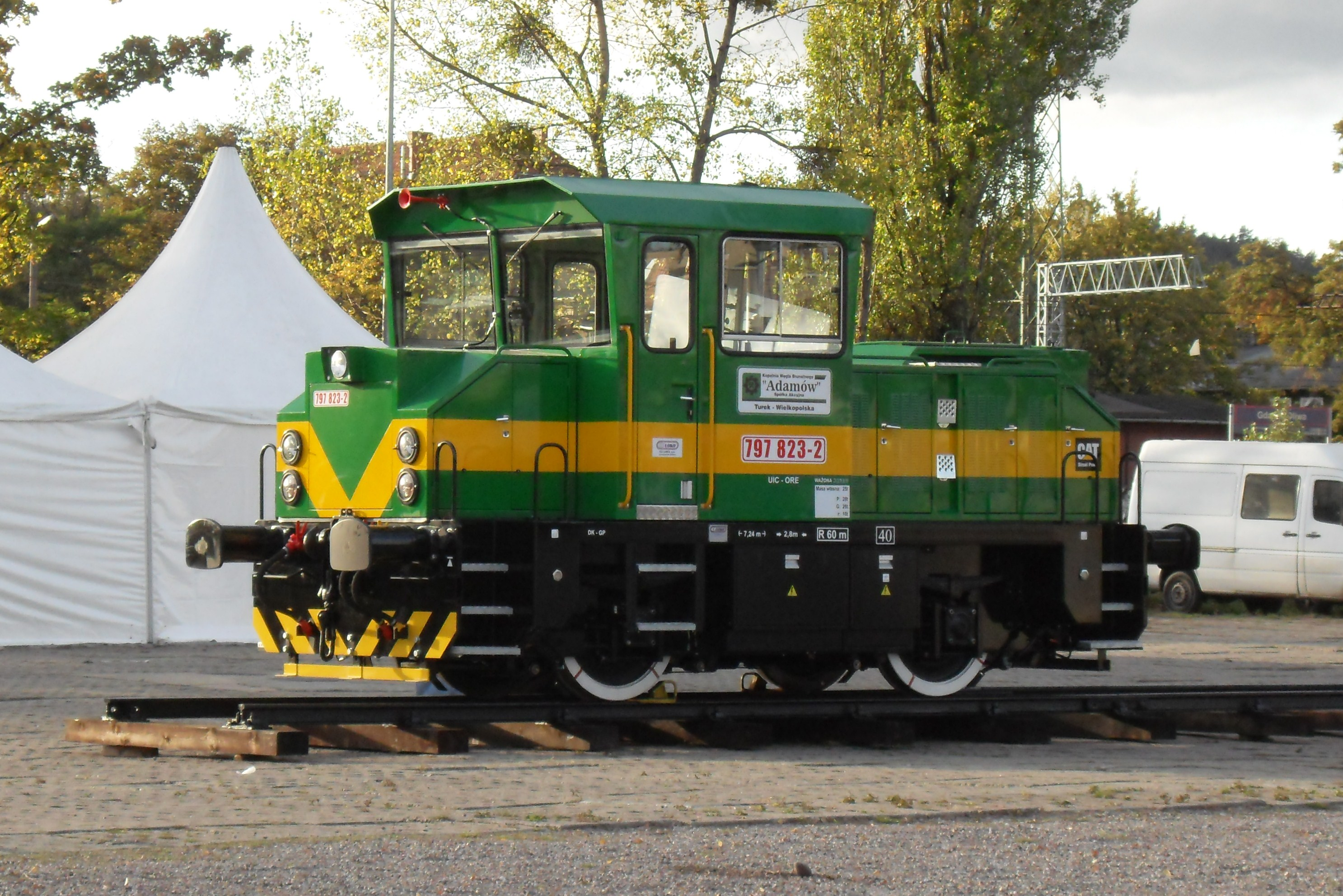 Gdańsk Przymorze (Poland). A diesel locomotive.